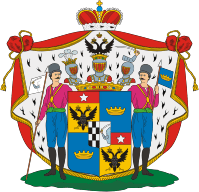 Coat of Arms of Potyomkin_earl family